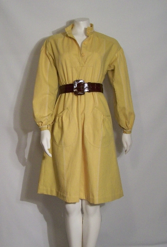 Vintage Shirt Dress